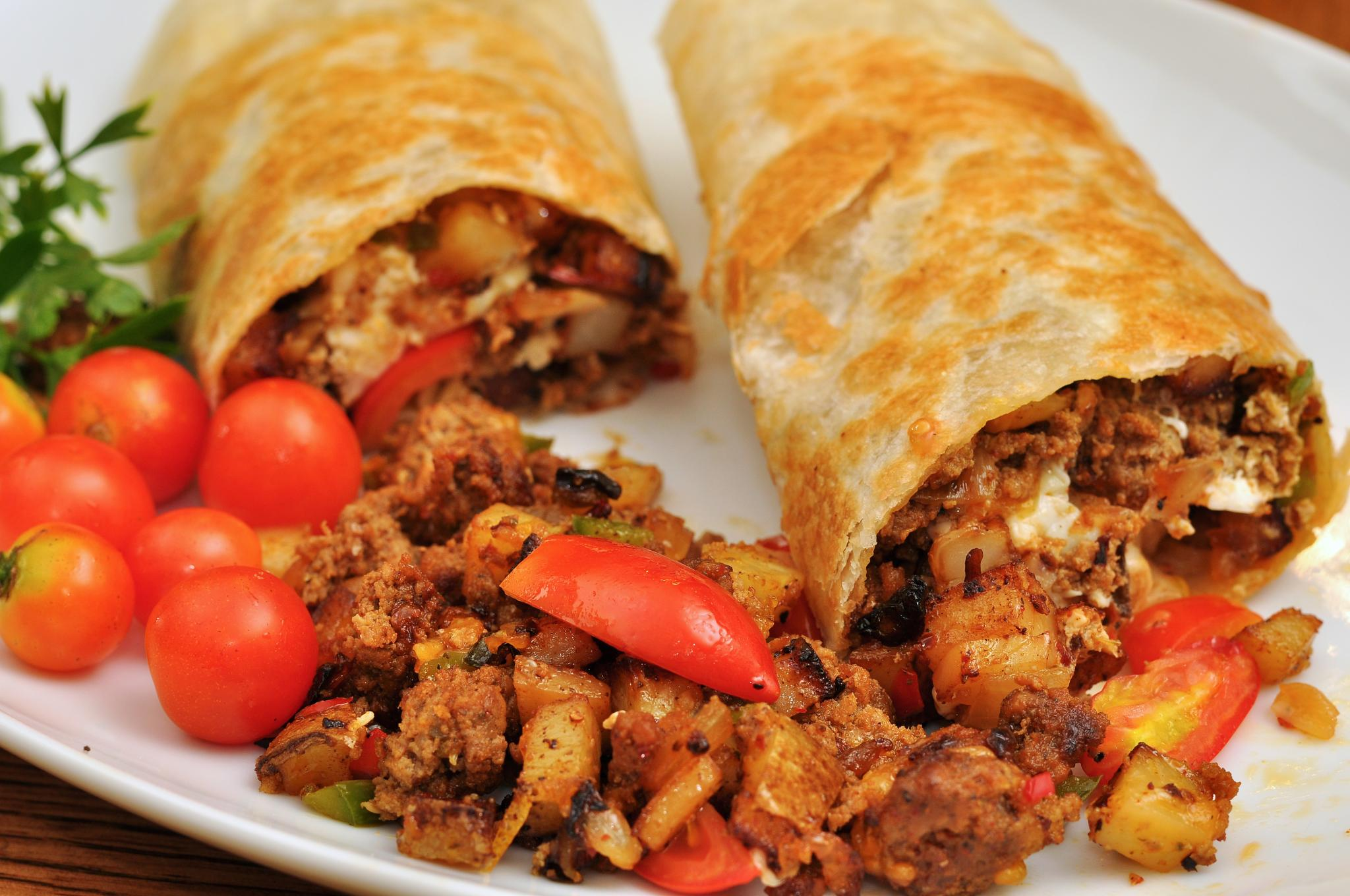 Breakfast burritos